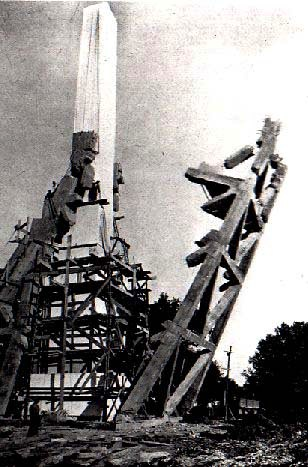 Construction of the Foro Italico obelisk in Rome